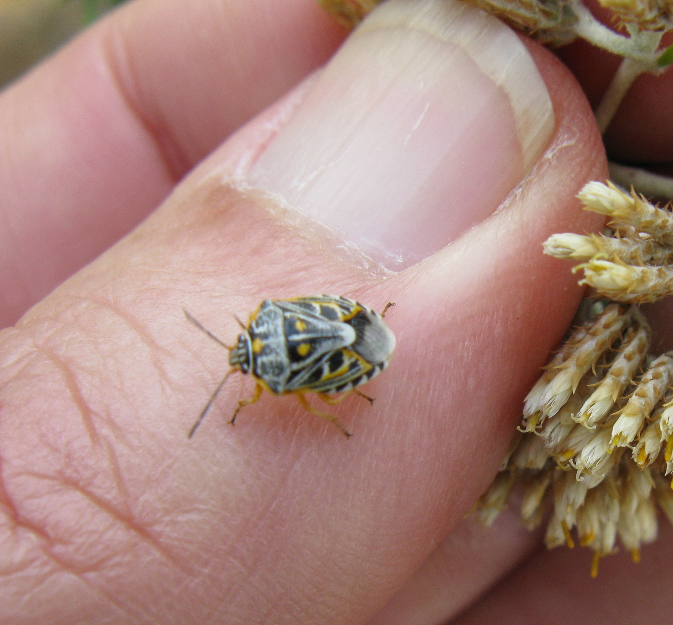 Antestiopsis orbitalis, Pentatomidae. "Antestia bug". NB: Colour varies, but pattern fairly consistent, eg 3 spots, 1 on pronotum, 2 on scutellum.